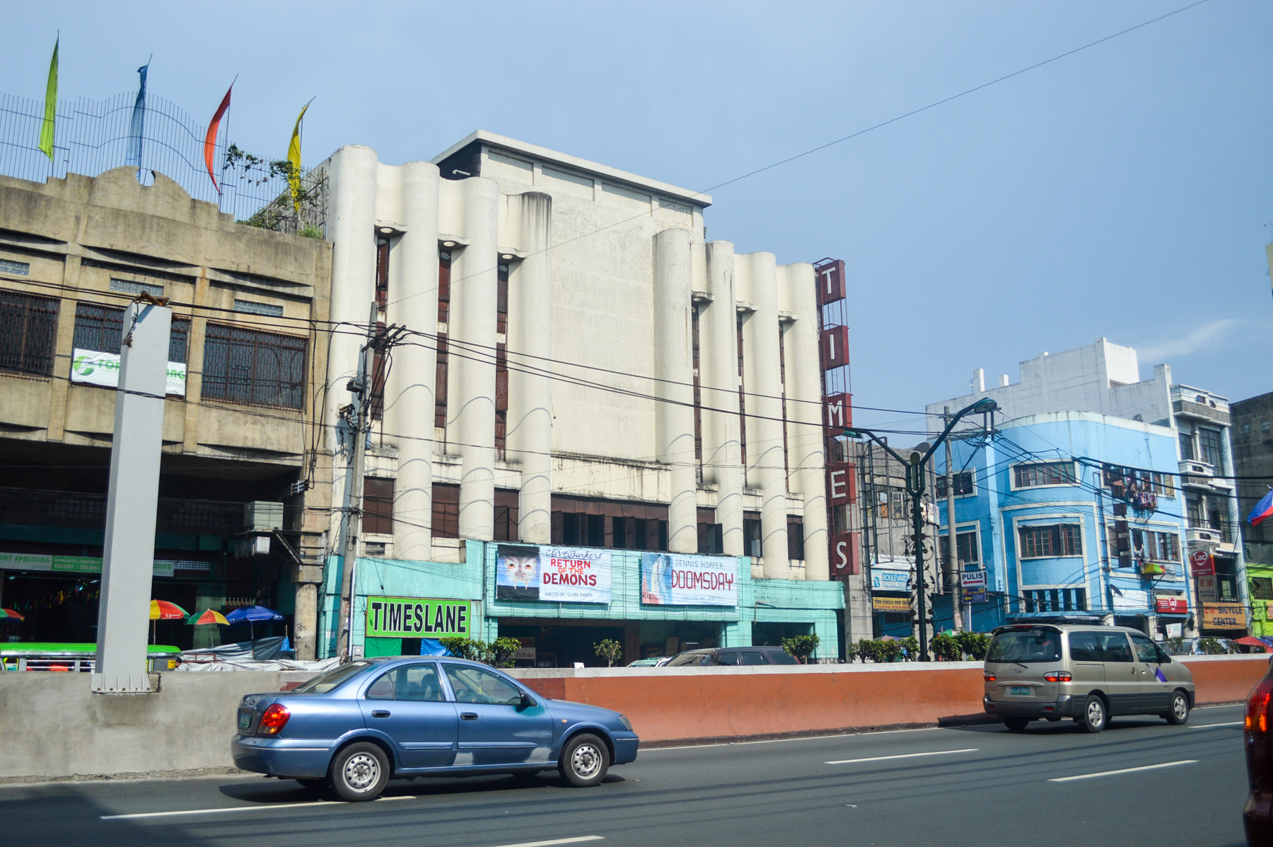 View of the theater across Quezon Boulevard